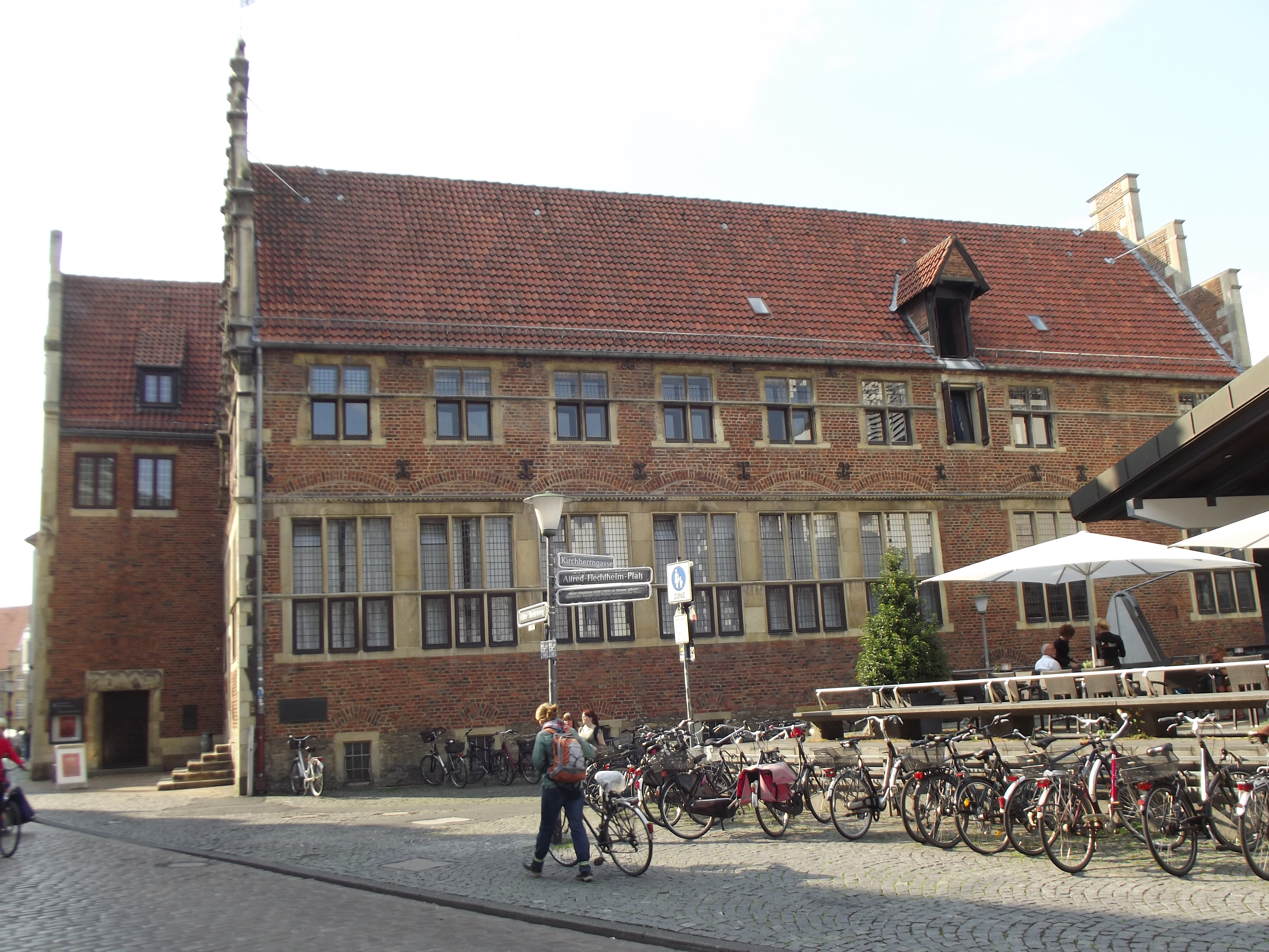 A historical building in Münster (an old guild house) which housed the delegation from the Netherlands during the signing of the Peace of Westphalia.